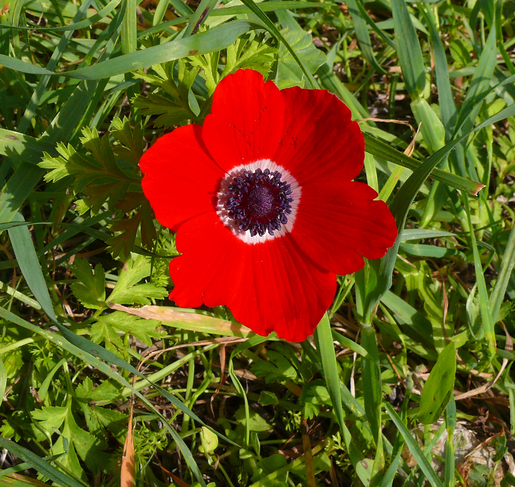 Anemone coronaria in shape of Star of David